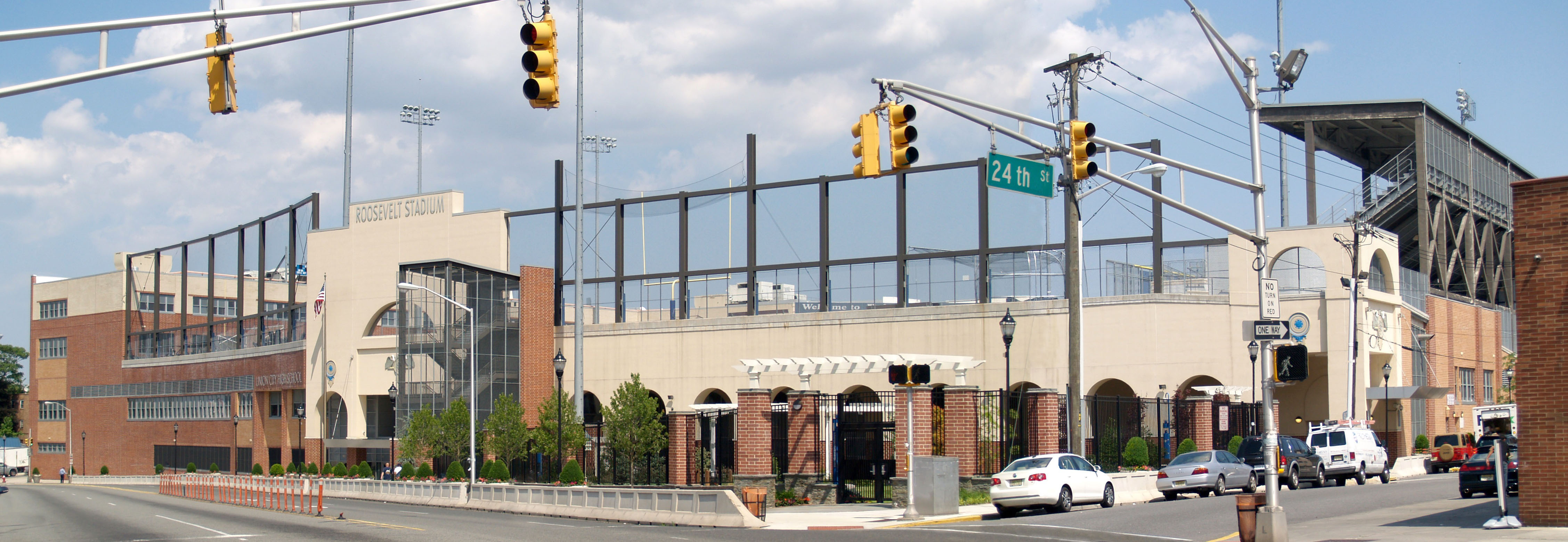 Union City High School in Union City, New Jersey, as seen on June 20, 2013. In front the school, in the foreground, is the Student Sanctuary, one month after its May 22 ribbon-cutting ceremony, marking the completion of the school (which opened September 3, 2009). This photo was created by Luigi Novi. It is not in the public domain, and use of this file outside of the licensing terms is a copyright violation.